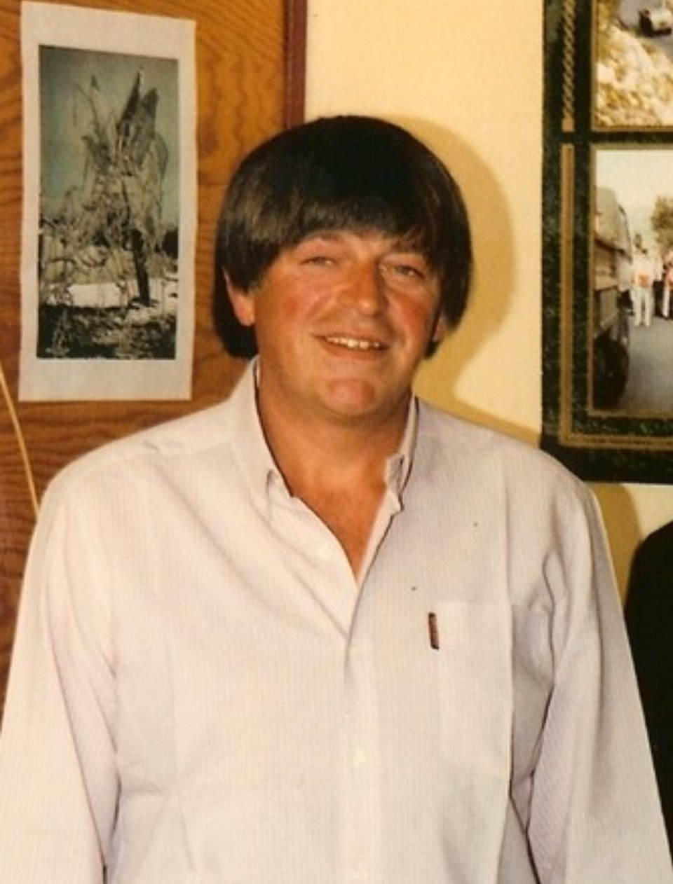 Prince Nicholas II Petrović Njegoš of Montenegro and Dejan Stojanovic in Paris. May 1990.